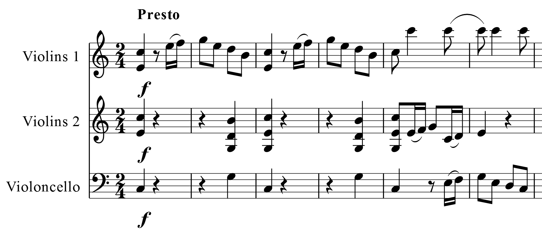 Joseph Haydn, Symphony No. 37, first movement, bar 1-6